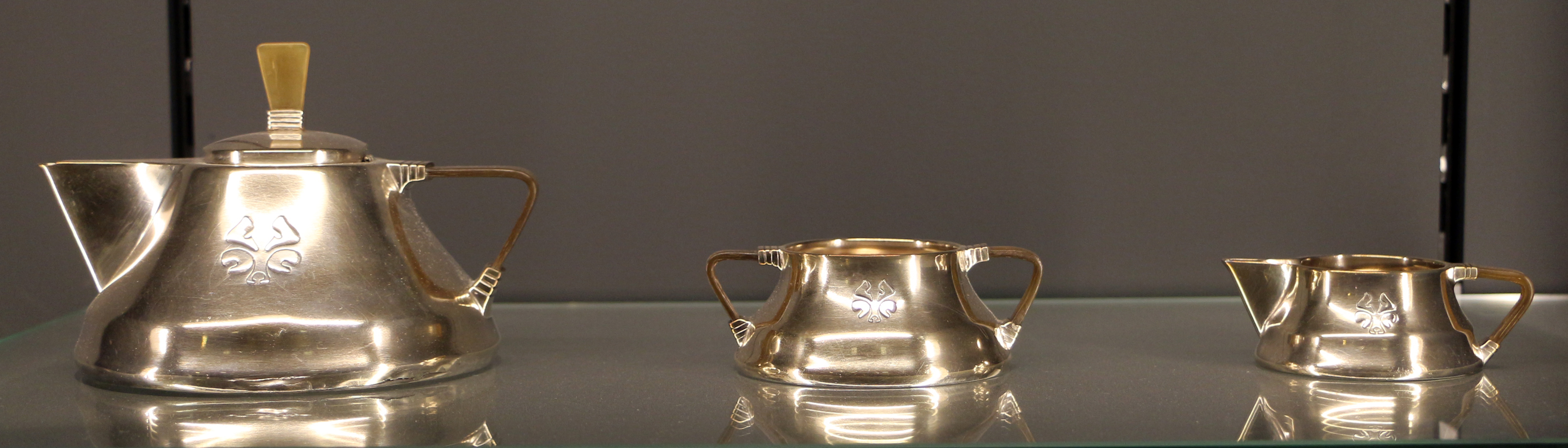 Decorative arts in the Musée d'Orsay